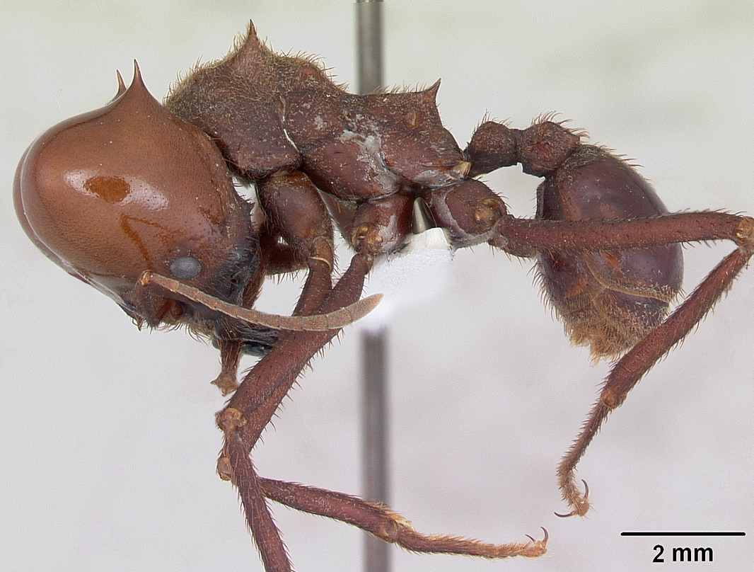 Profile view of ant Atta laevigata specimen casent0173811.